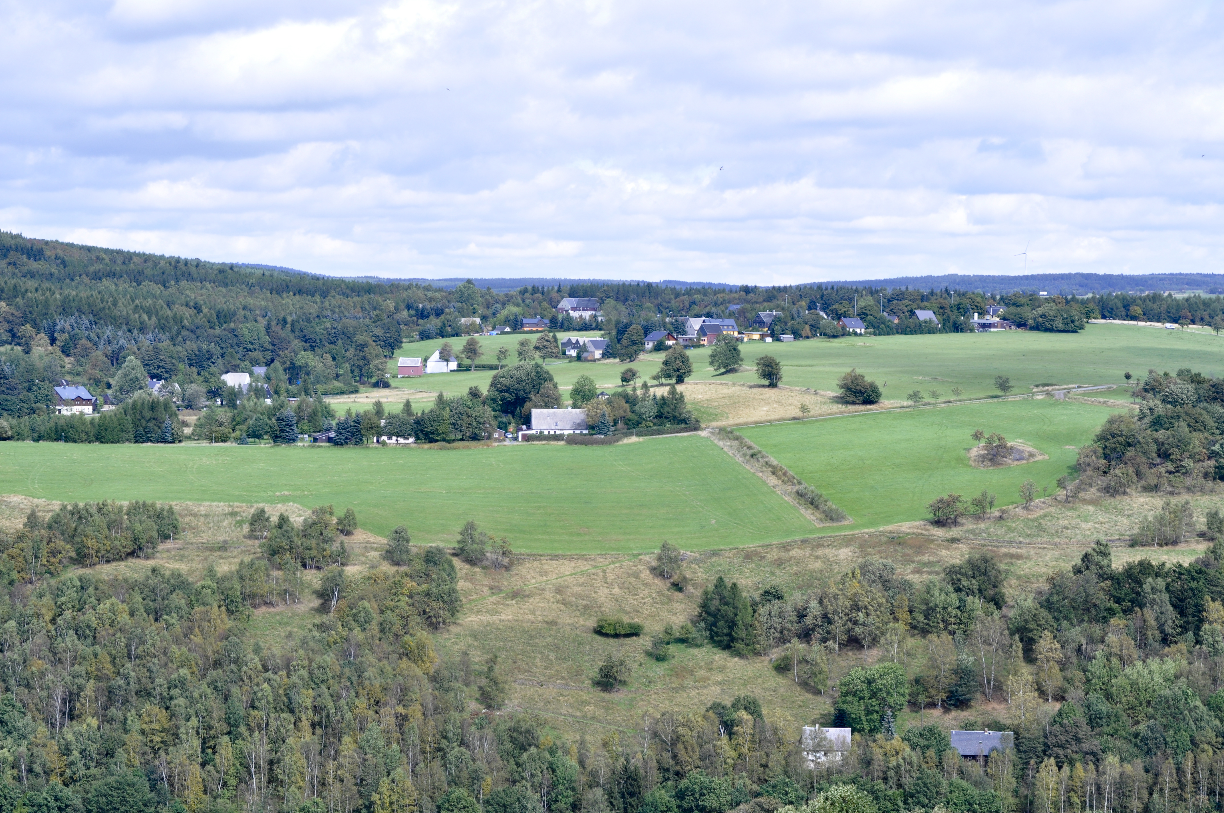 Deutschneudorf from Hora Svaté Kateřiny